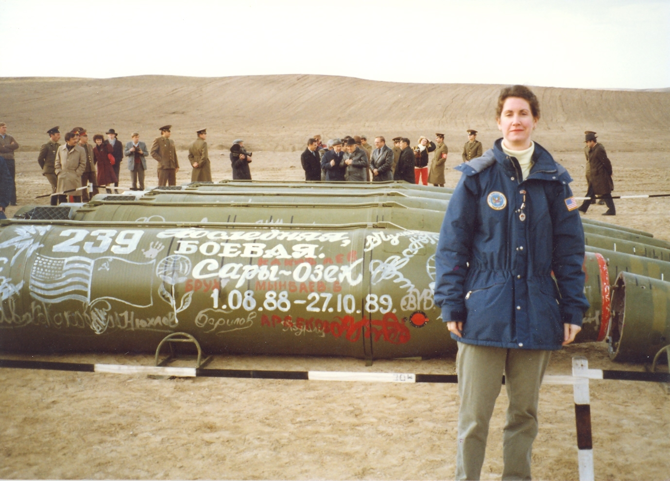 Ambassador Eileen Malloy, chief of the arms control unit at the U.S. Embassy in Moscow, Russia, is pictured at the destruction site in Saryozek, (former Soviet Union) Kazakhstan, where the last Soviet short-range missiles under the Intermediate-Range Nuclear Forces Treaty were eliminated under the INF treaty in the Spring of 1990.